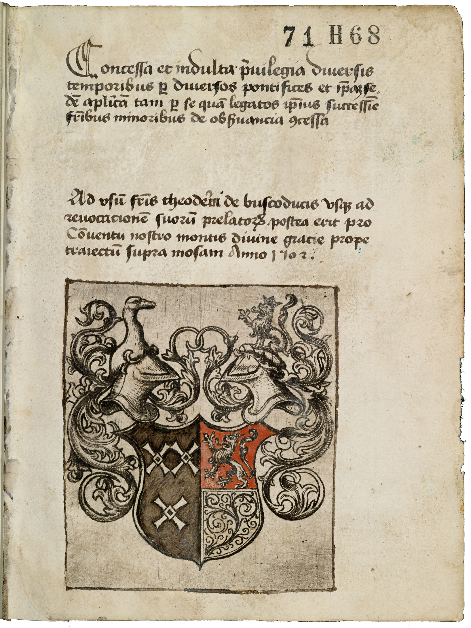 Page from a manuscript containing Privilegia [...] fratribus minoribus de observantia concessa (1502-06) and some religious poems (17th c). The statutes and regulations are of the Observantenklooster (friars minor of Mons Divinae Gratiae) in Maastricht, the Netherlands. Since 1830 in the Koninklijke Bibliotheek in The Hague (KB - ms 71 H 68).